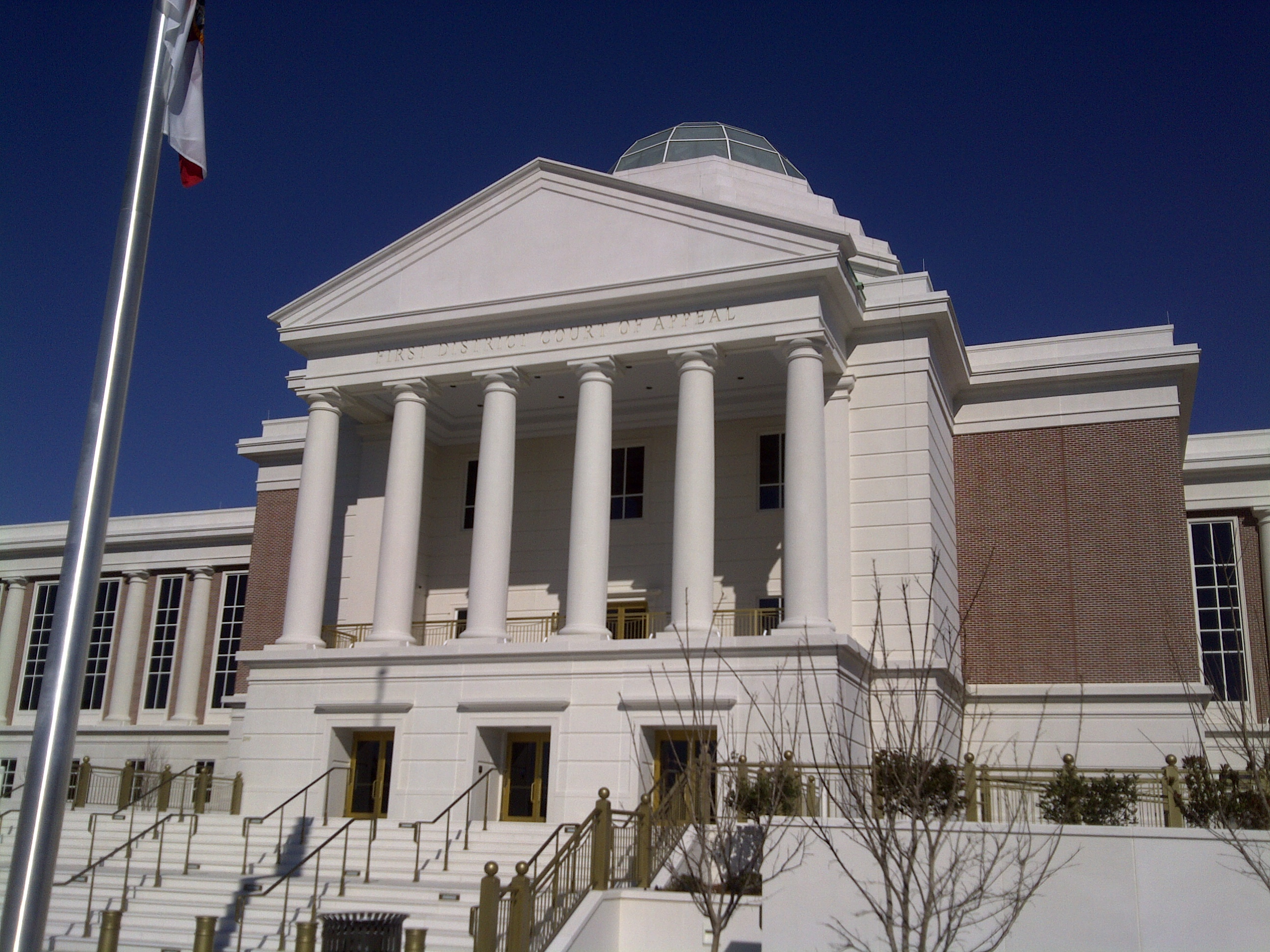 I am the author of this image.